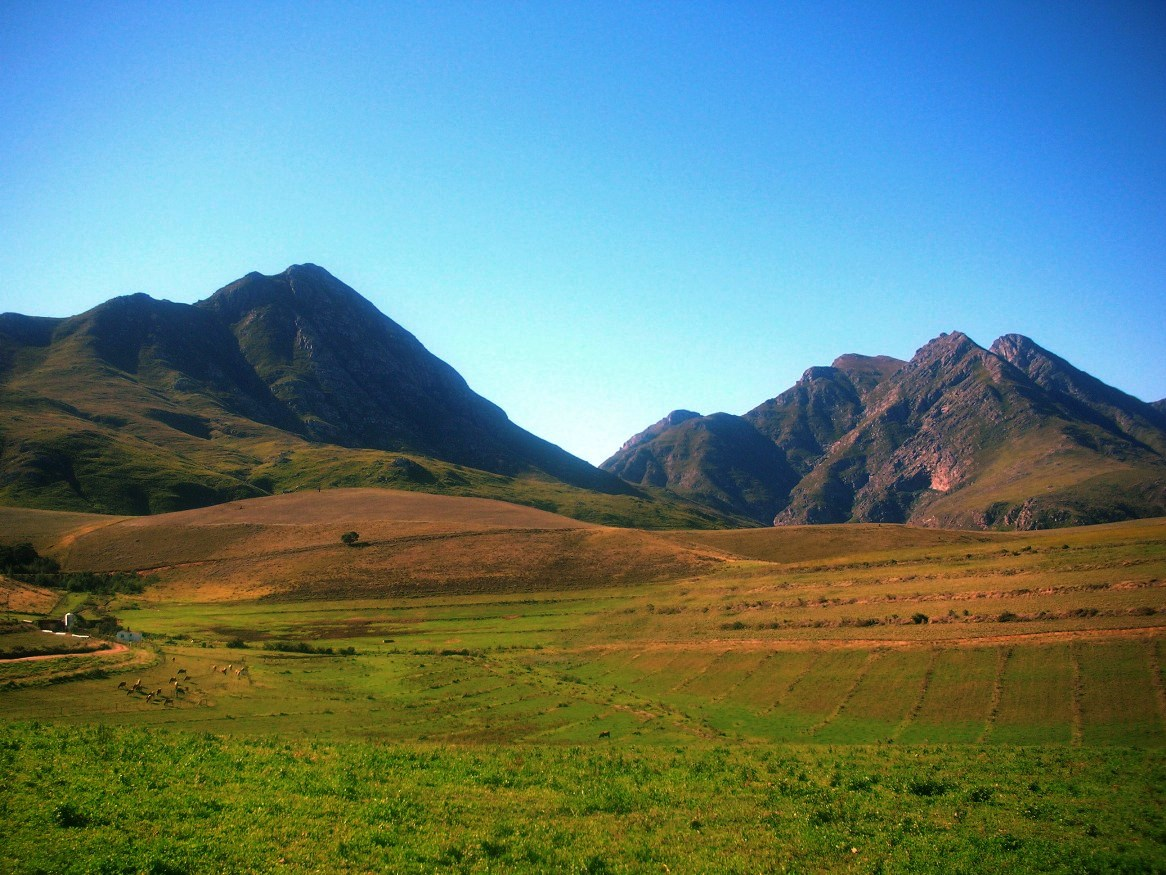 Landscape of the Langeberg Range west of Swellendam, Western Cape